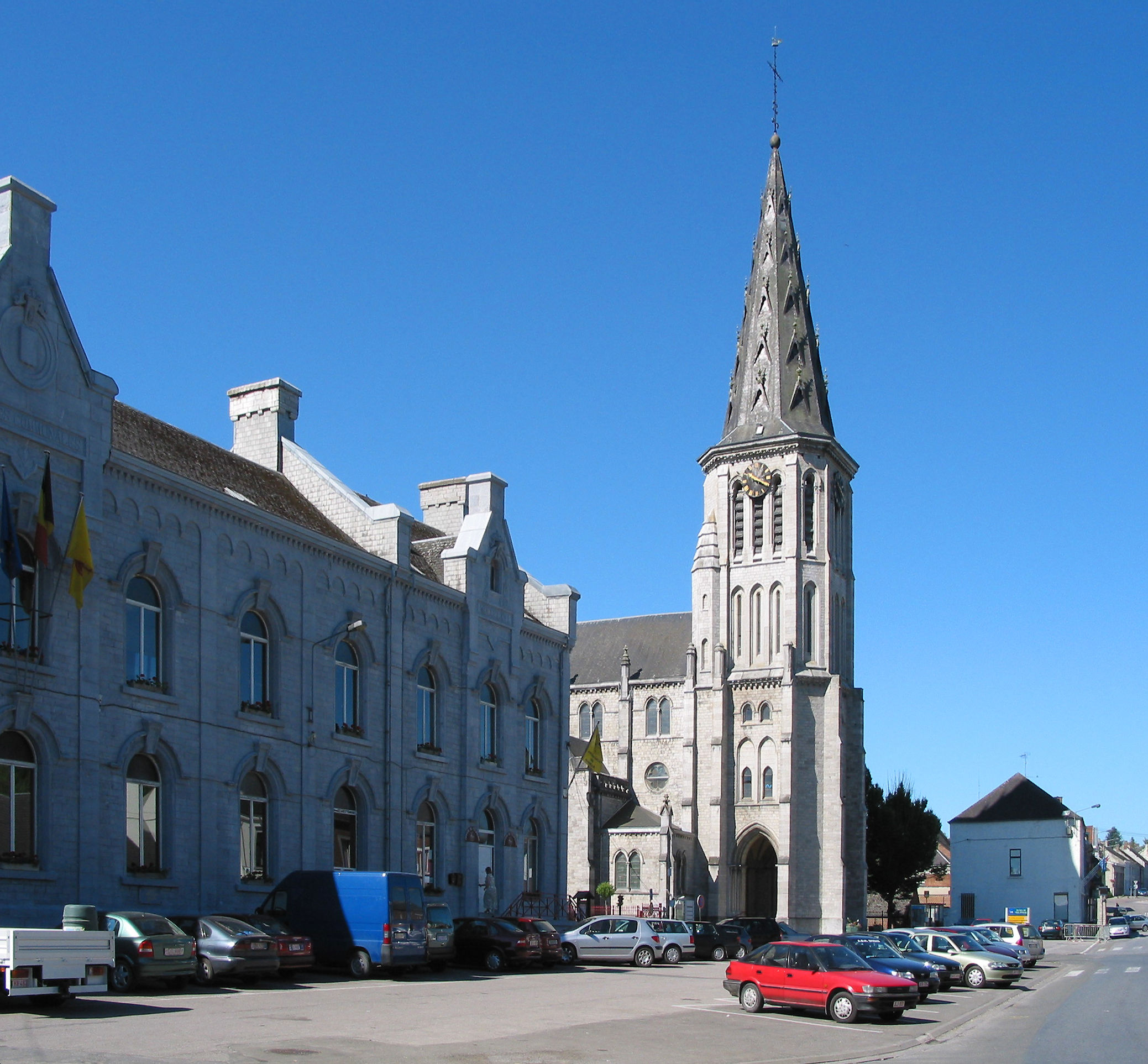 Cerfontaine, Belgium, the St. Lambert's church (1884).